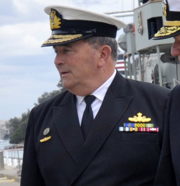 SYDNEY, Australia (Oct. 1, 2010) Vice Adm. Russ Crane, Chief of Navy of the Royal Australian Navy, center, and Chief of Naval Operations (CNO) Adm. Gary Roughead speak with Sailors before participating in an award ceremony at HMAS Waterhen Naval Base in Sydney. (U.S. Navy photo by Chief Mass Communication Specialist Tiffini Jones Vanderwyst/Released)